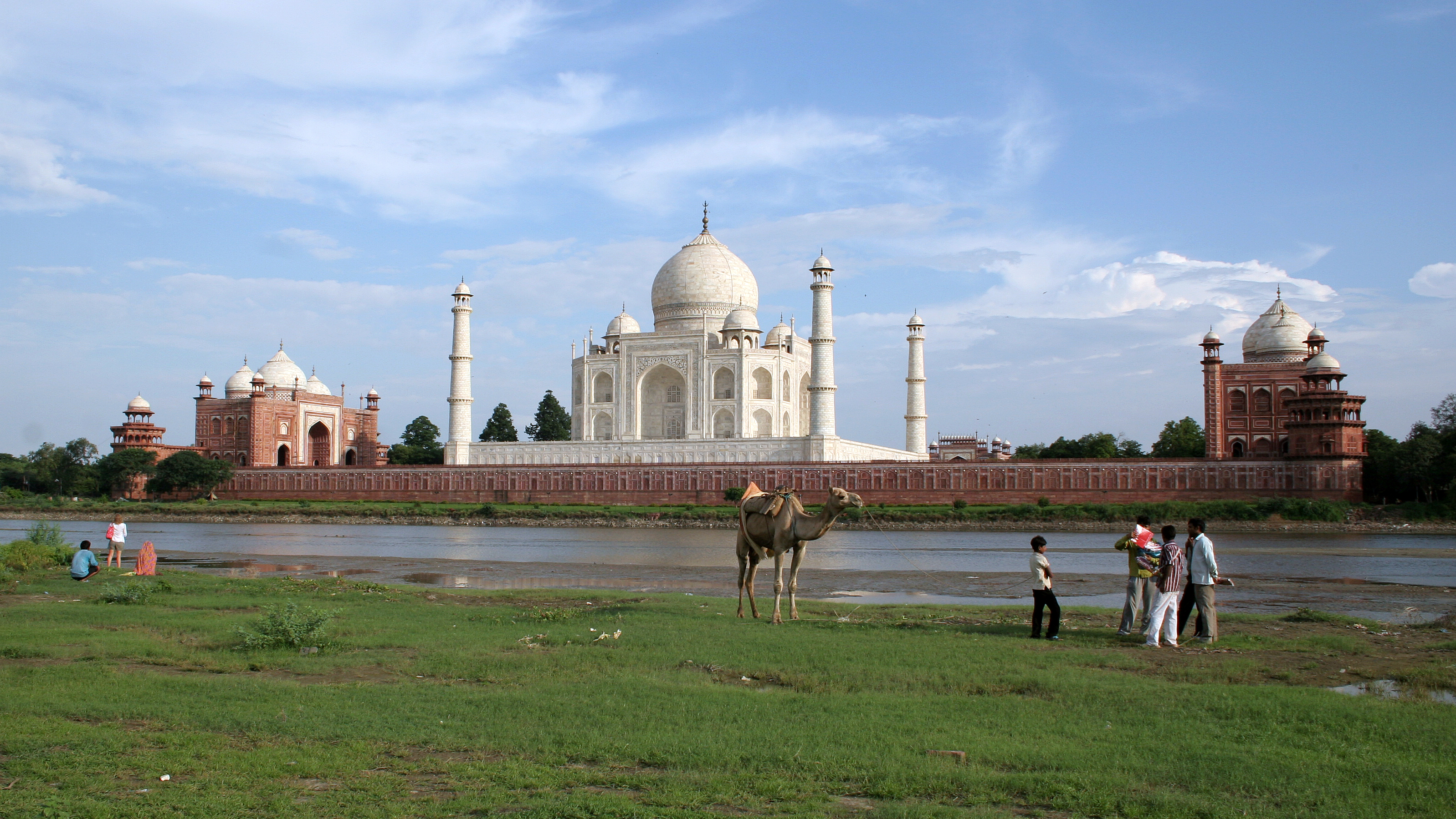 Taj Mahal world heritage site in Agra, India.